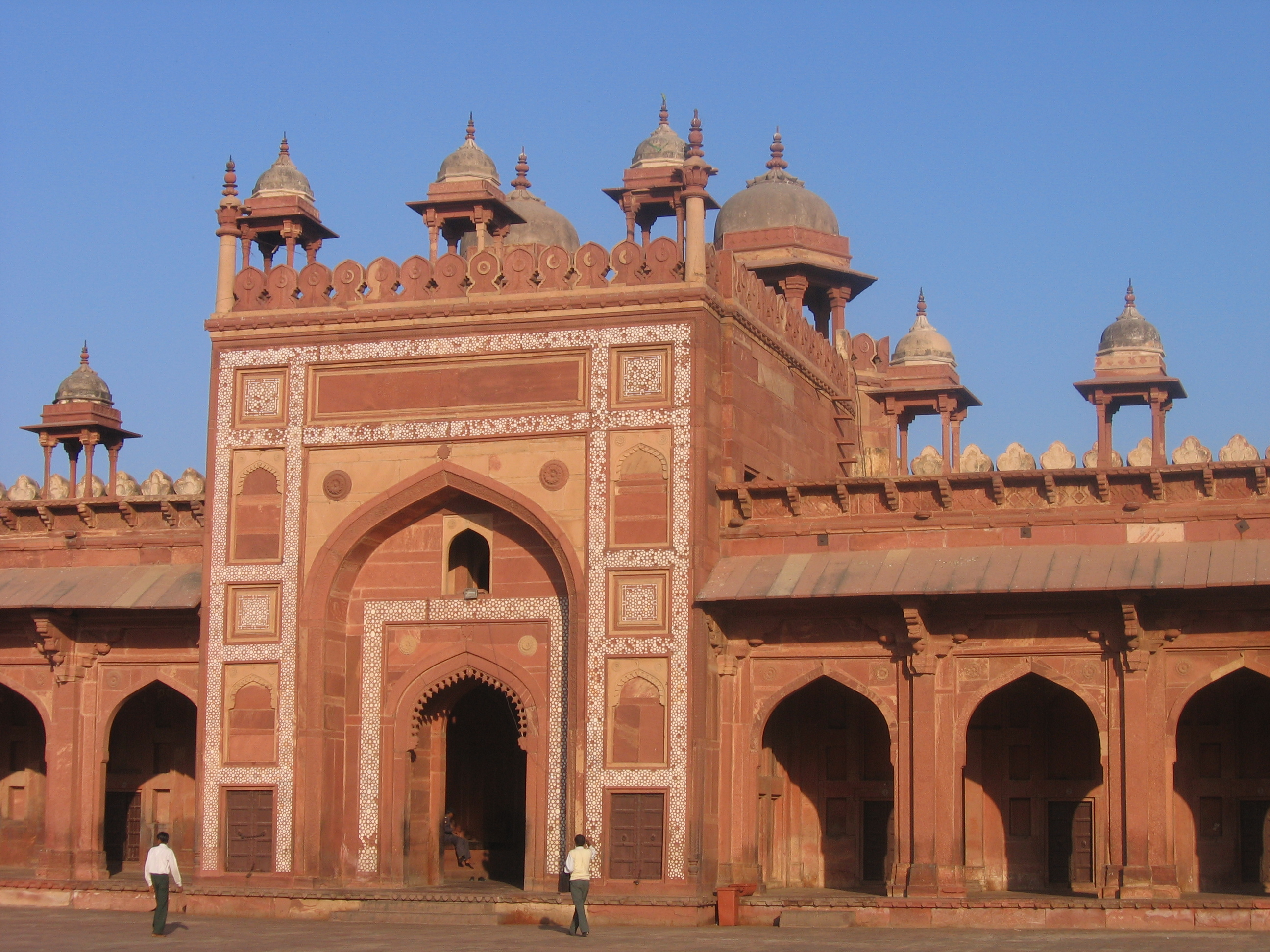 One of the gates to the courtyard of the Jama Masjid.